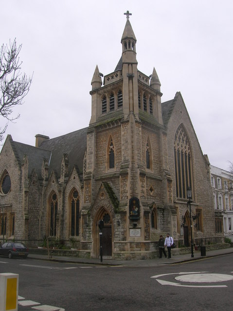 St Mark's Coptic Orthodox Church, Allen Street, London W8, seen from the northwest at the junction with Scarsdale Villas